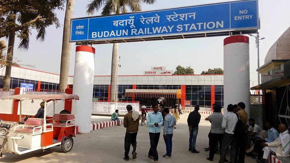 Budaun Railway Station Which runs on broad gauge (Badi Line) links budaun to Mumbai.